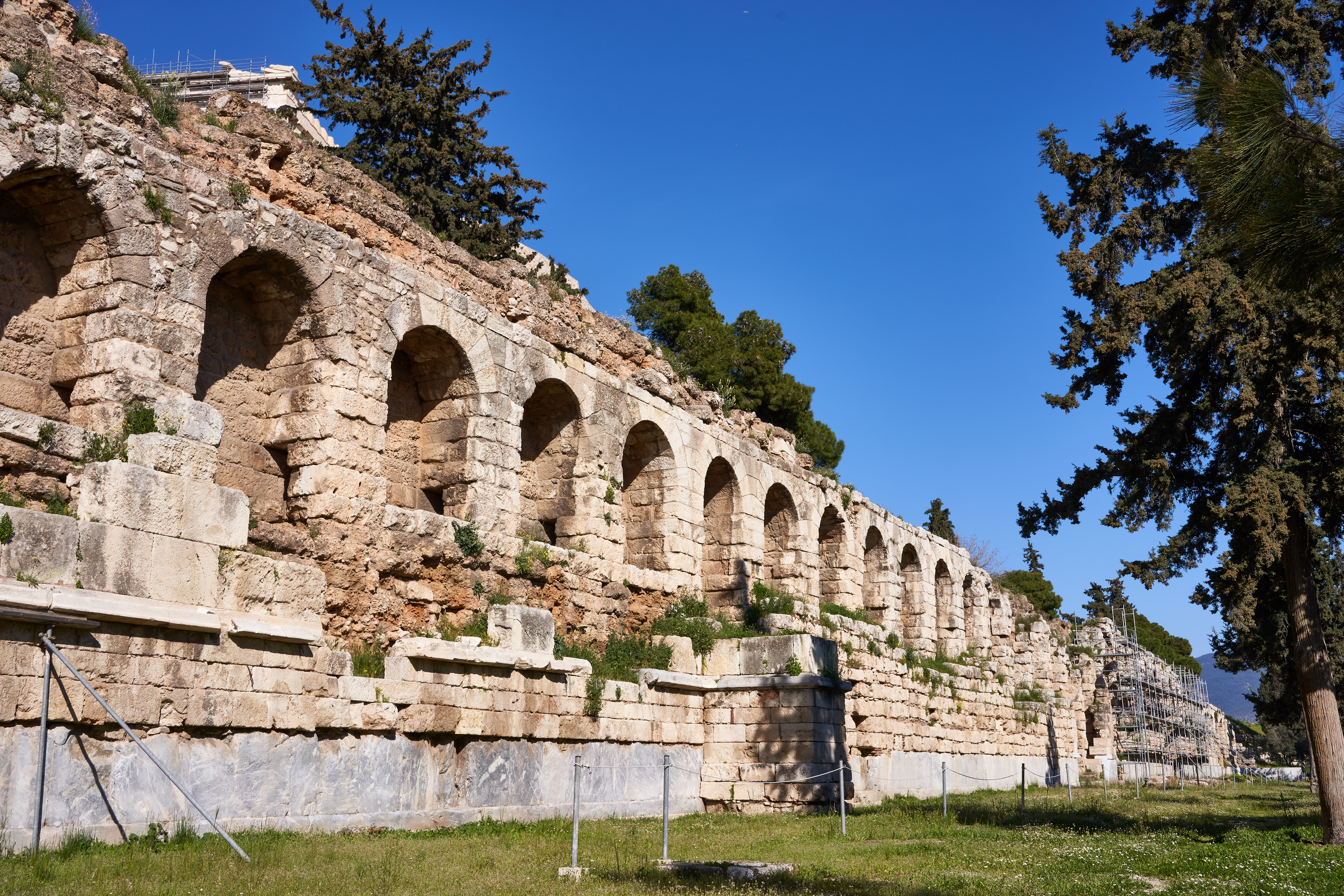 The remains of the Stoa of Eumenes in Athens. The stoa lies between the Odeon of Herodes Atticus and the Theatre of Dionysus. This is a view from the side of the Odeon.